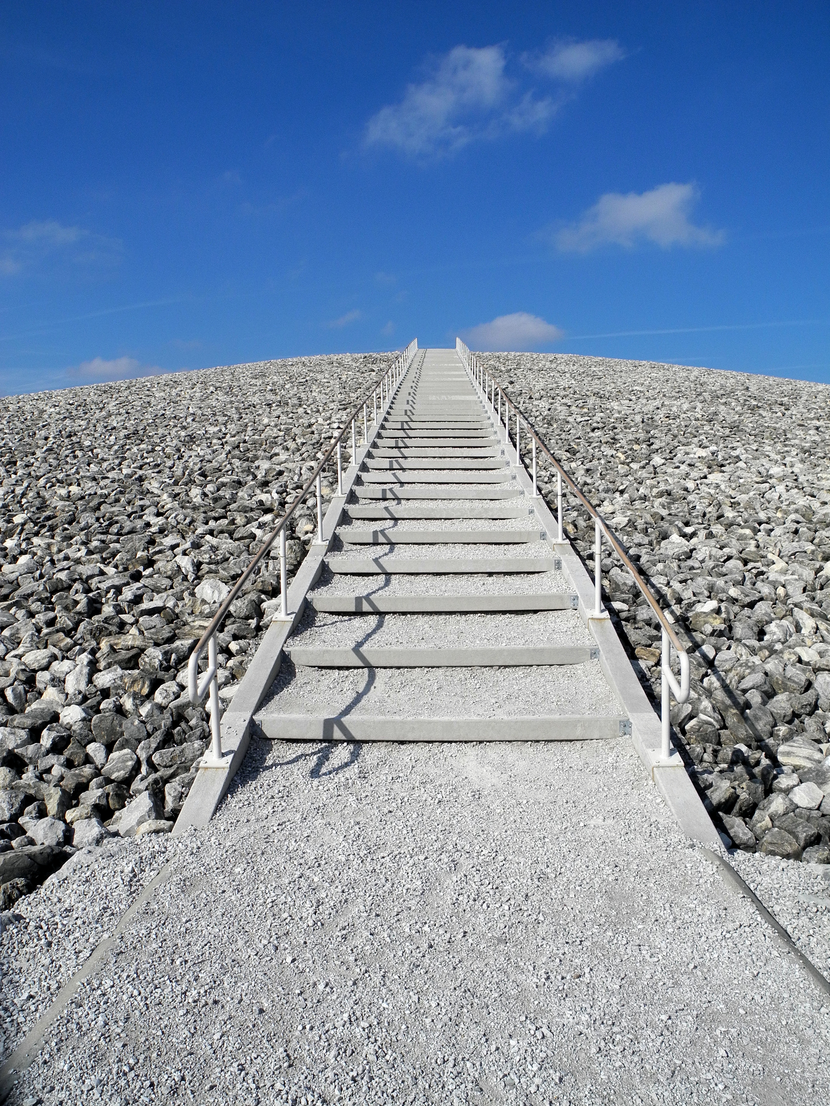 Stairway leading to the top of the containment structure at the Superfund cleanup site at the former Weldon Spring Ordnance Works